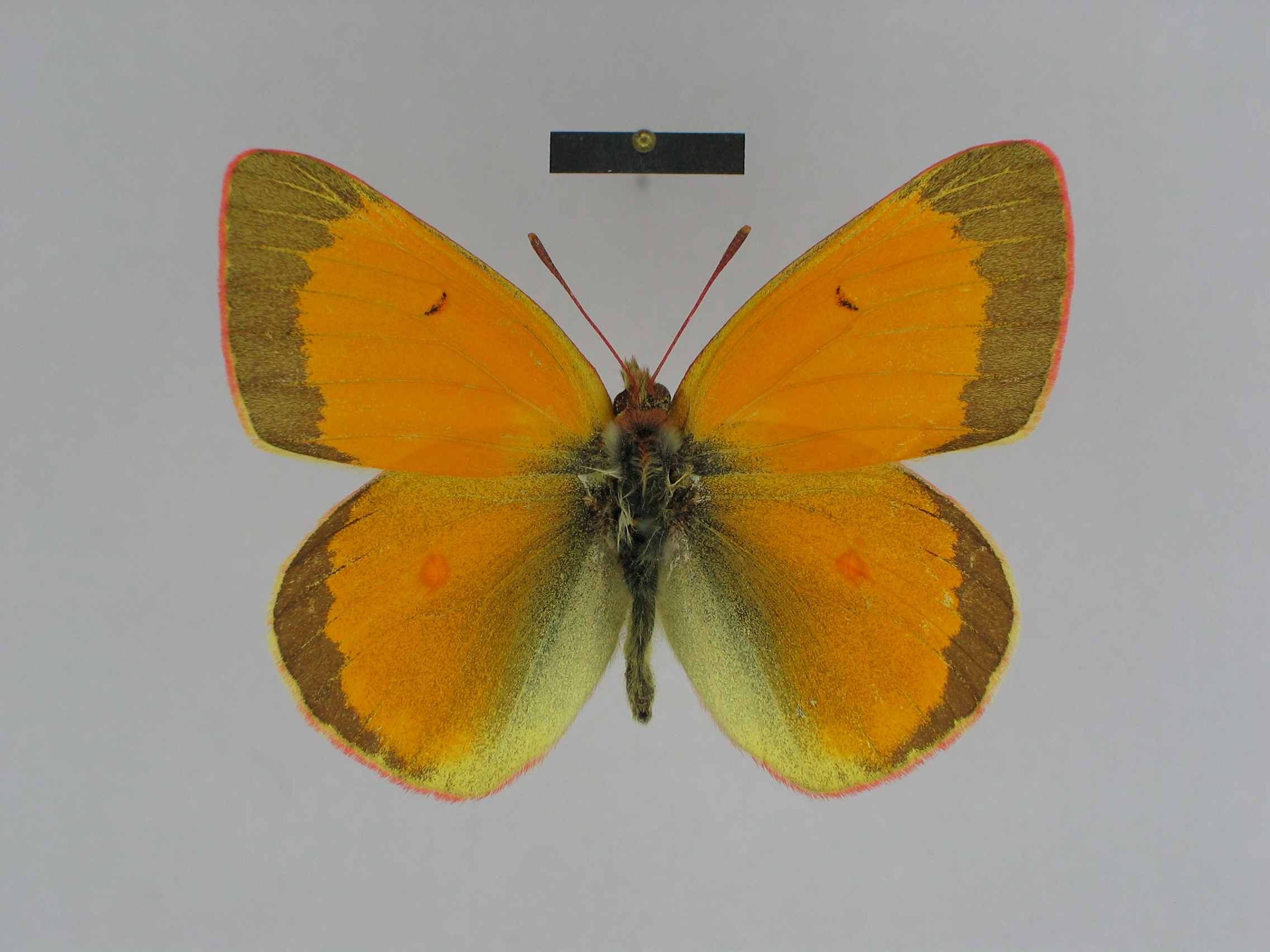 Holotype of the species Colias viluiensis heliophora from the collection of the State Darwin Museum; ♂ dorsal side; scalebar=1 cm